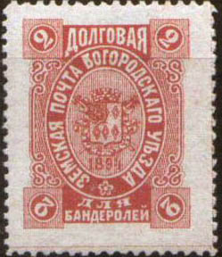 Zemstvo postage due stamp, Bogorodsk, Moscow Governorate, Russia, 1894, 2 kopecks.